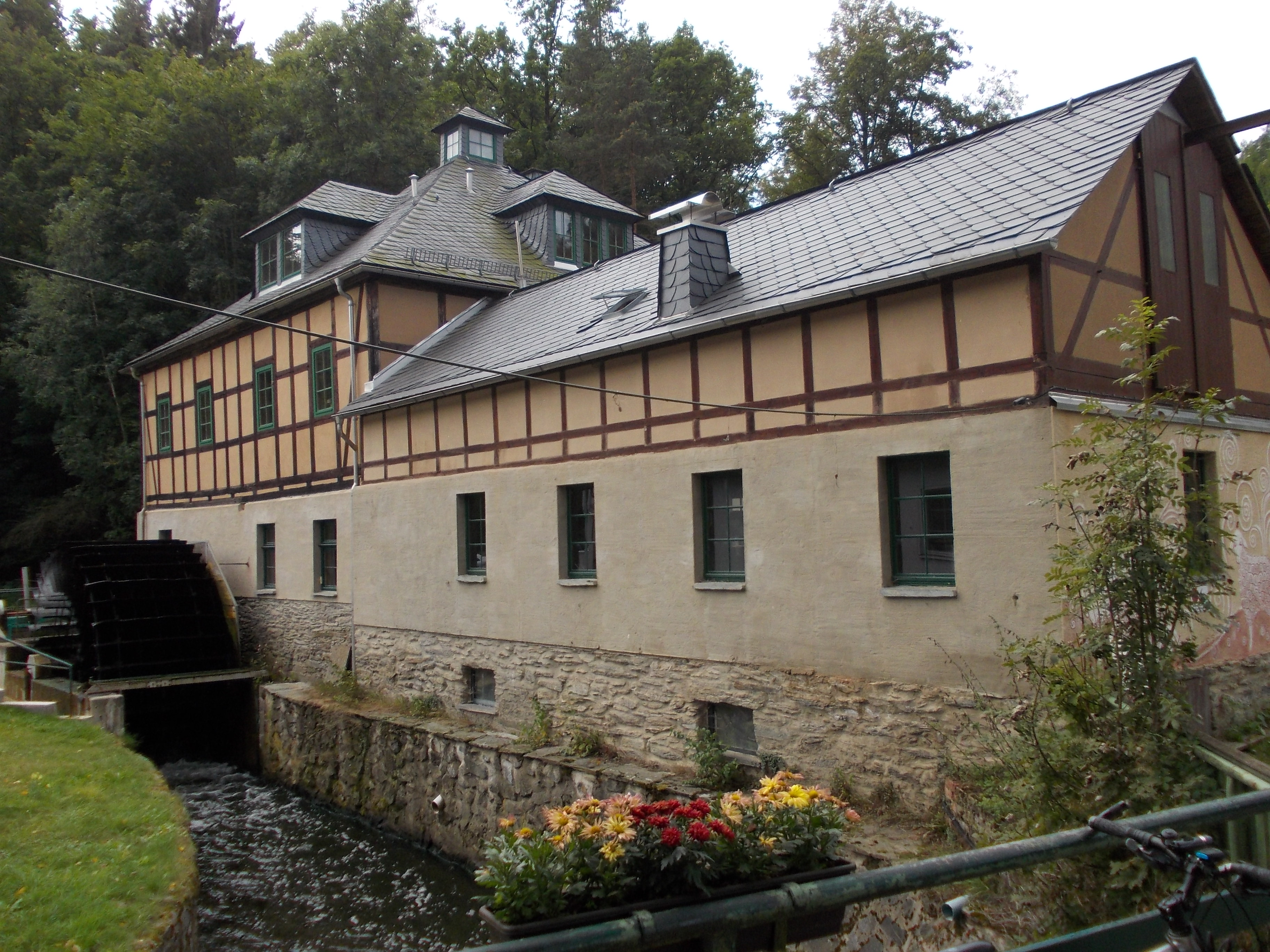 Clodra Mill in the valley of the Weisse Elster river (Berga/Elster, Greiz district, Thuringia)